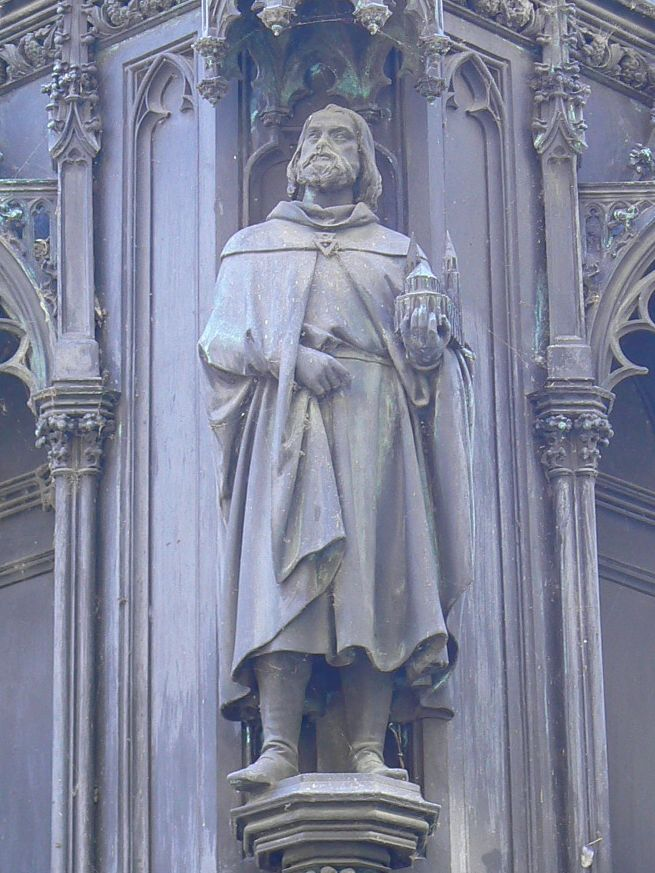 Matthias of Arras (detail of the pedestal of the statue of Charles IV, Holy Roman Emperor; Křižovnické Square, Prague, Czechia)